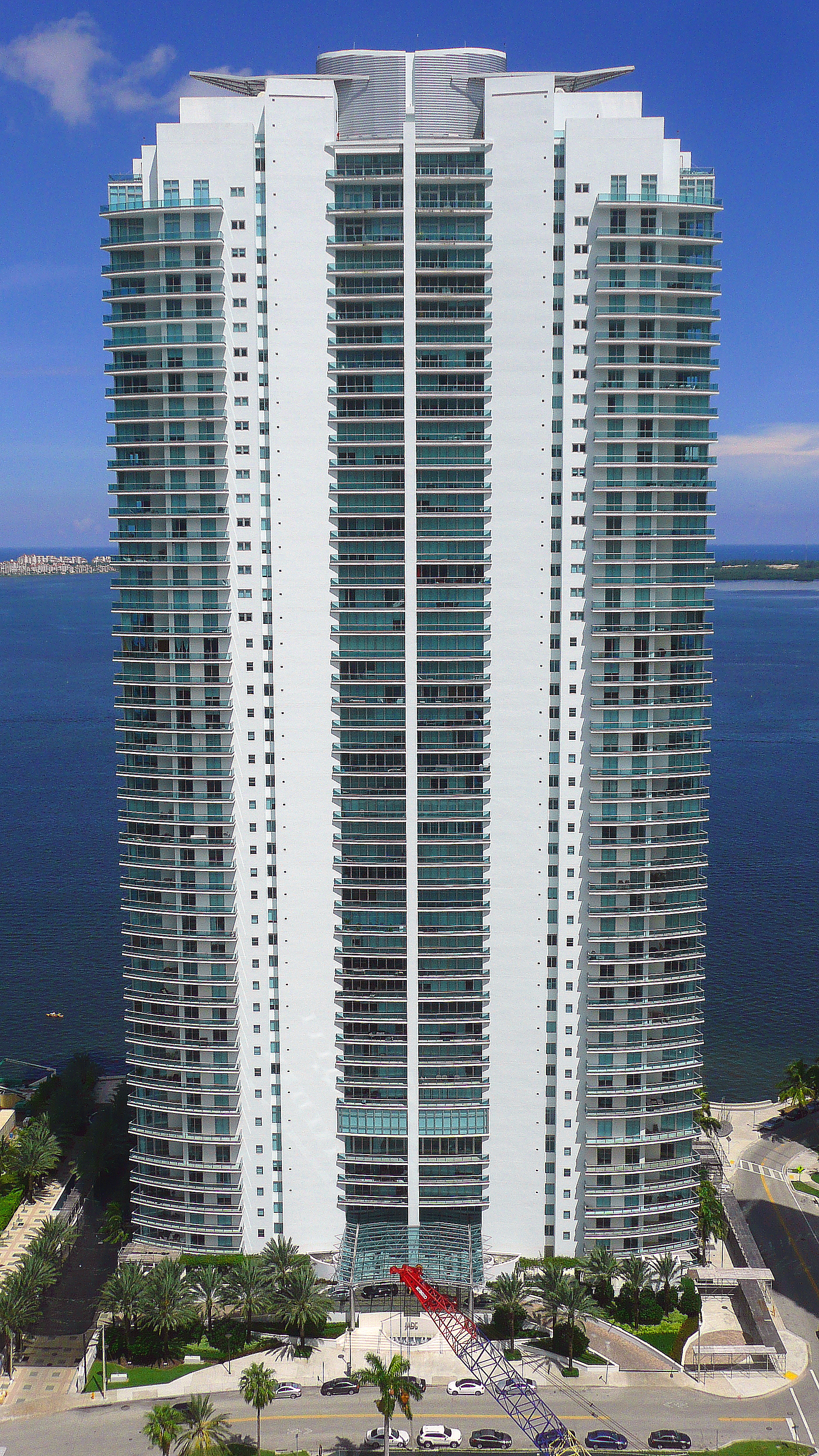 Jade residences in Brickell, Miami, Florida.